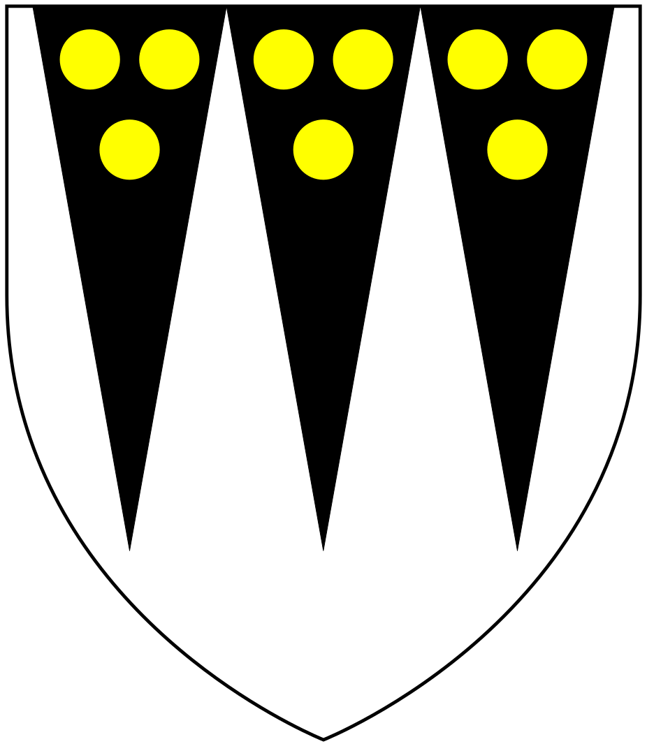 Arms of Larder of Upton Pyne, Devon: Argent, three piles sable each charged with as many bezants(Vivian, Lt.Col. J.L., (Ed.) The Visitations of the County of Devon: Comprising the Heralds' Visitations of 1531, 1564 & 1620, Exeter, 1895, p.524). This arrangement is visible on the monument and effigy of Edmund Larder (d.1521) in Upton Pyne Church. The bezants are given as bezantee in Sir George Carew's Scroll of Arms, no.412.